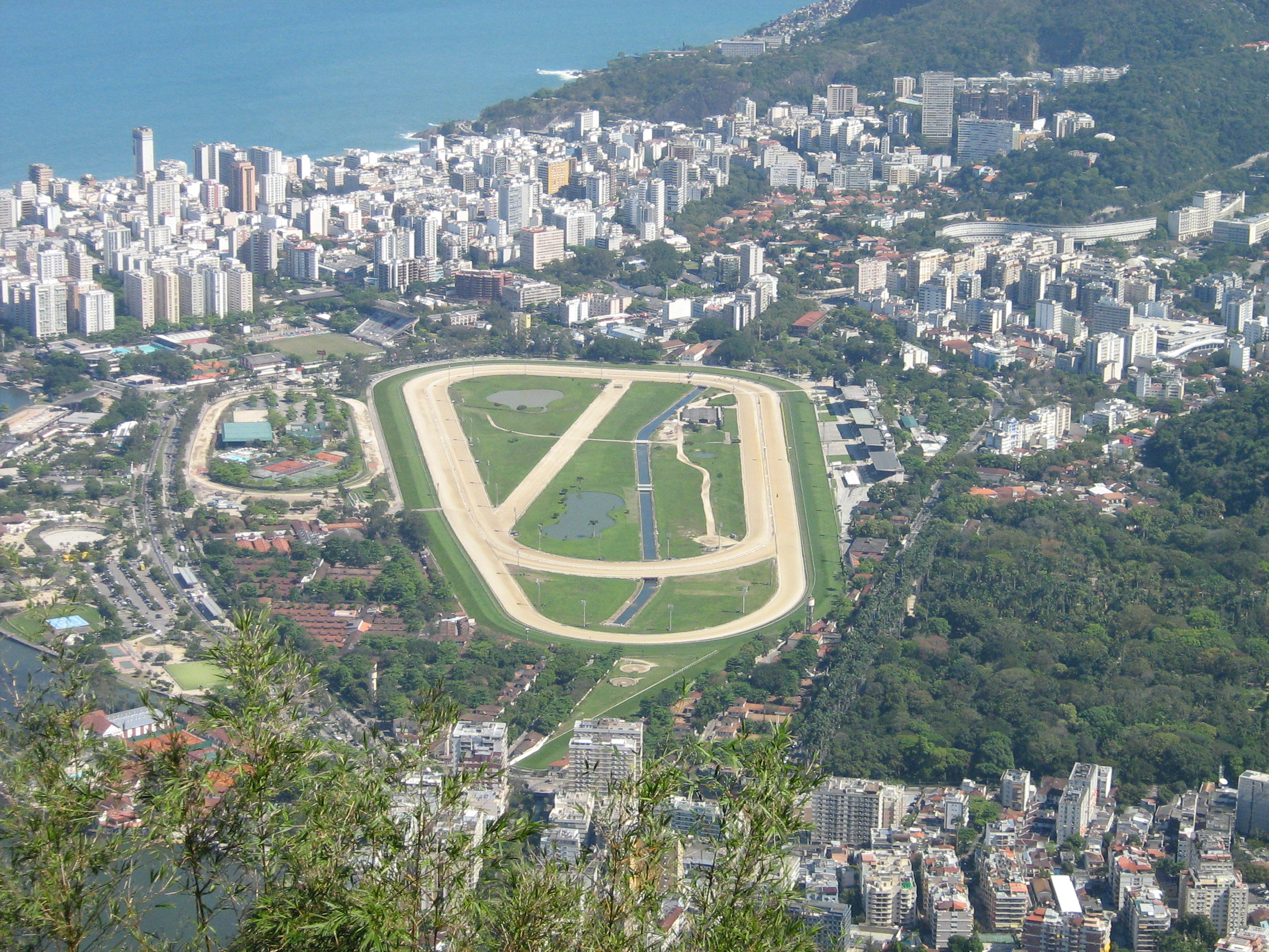 View of Jockey Club Brasileiro from Corcovado in Rio de Janeiro